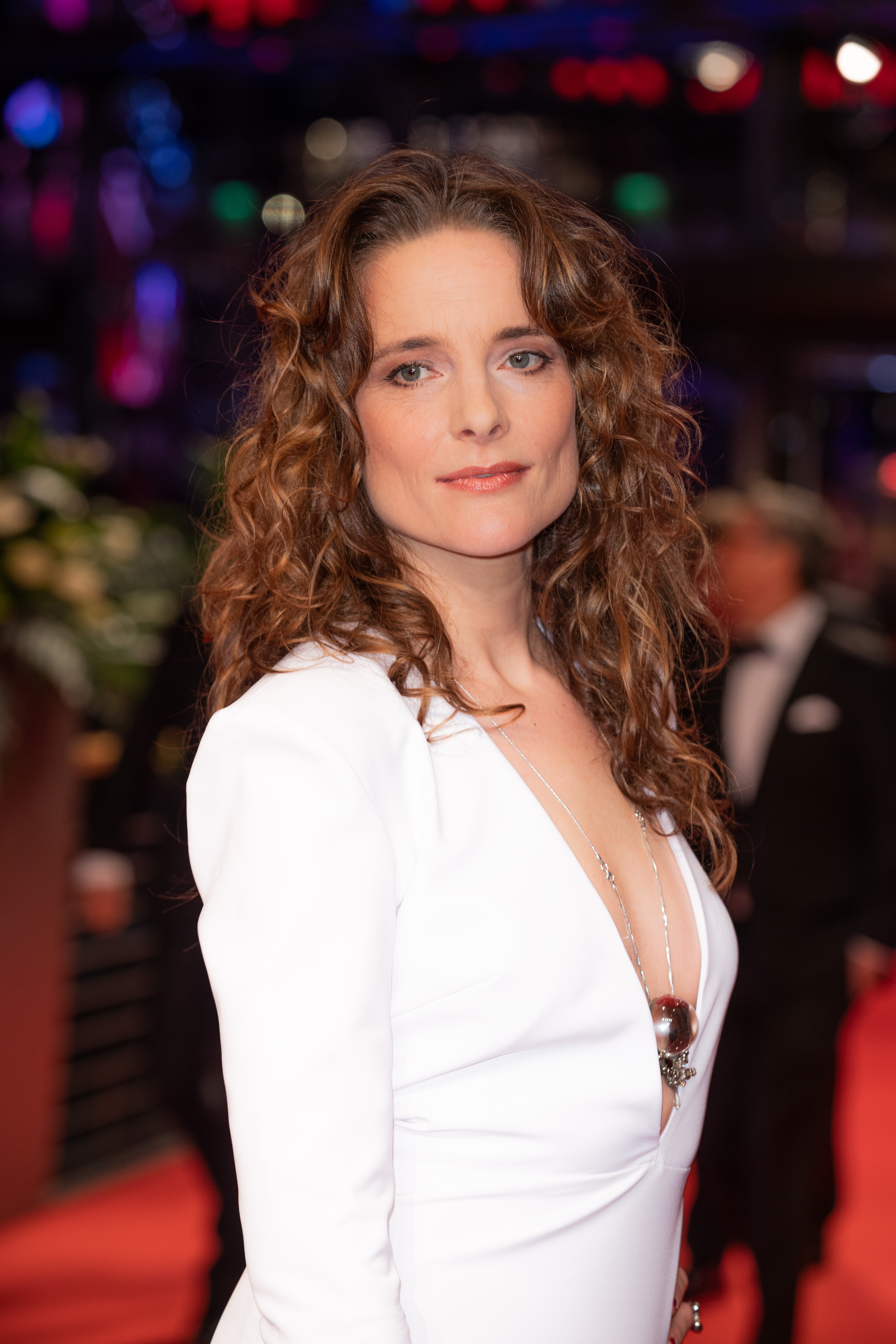 Anne Ratte-Polle at the Berlinale 2020